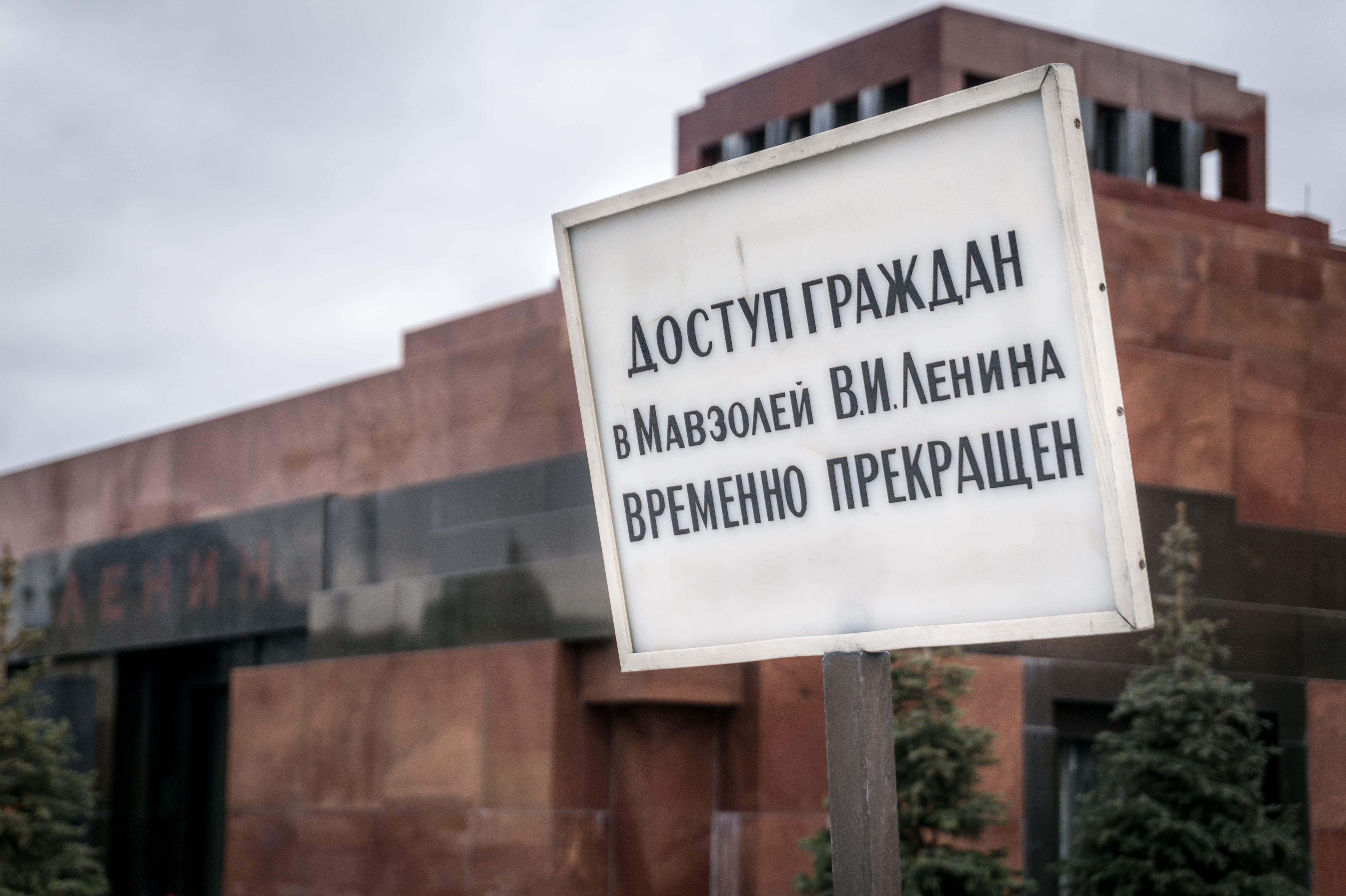 Lenin is closed